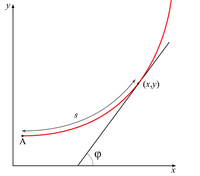 Intrinsic coordinates of a curve (improved)